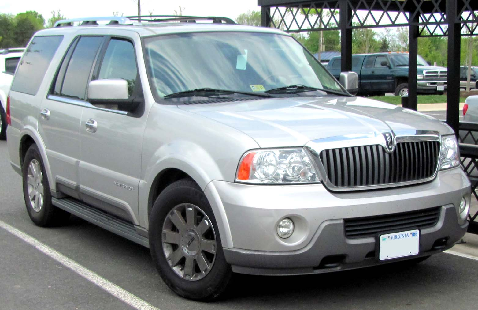 2003-2004 Lincoln Navigator photographed in Gainesville, Virginia, USA.